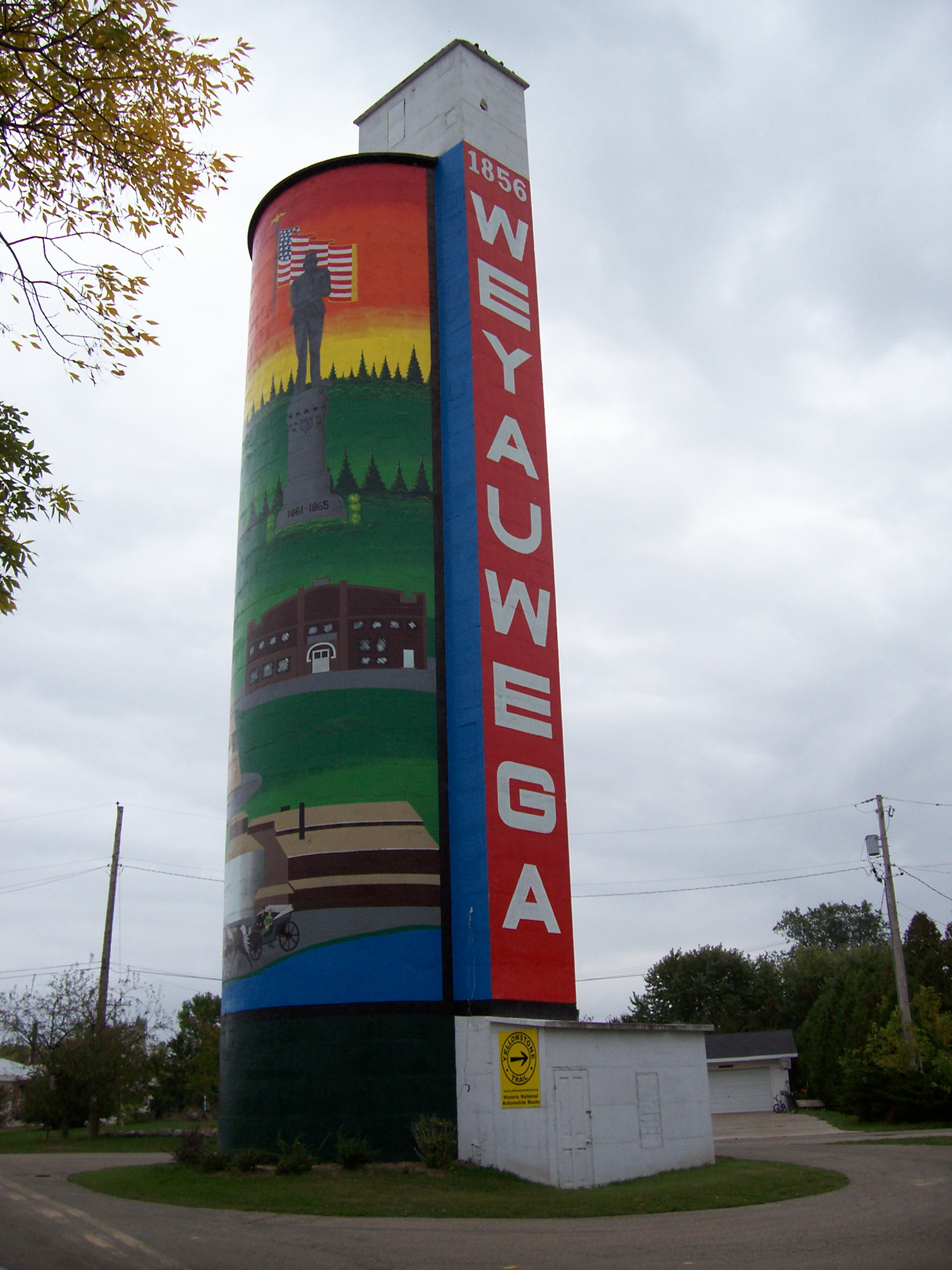 A painted silo in Weyauwega, Wisconsin on the Yellowstone Trail.